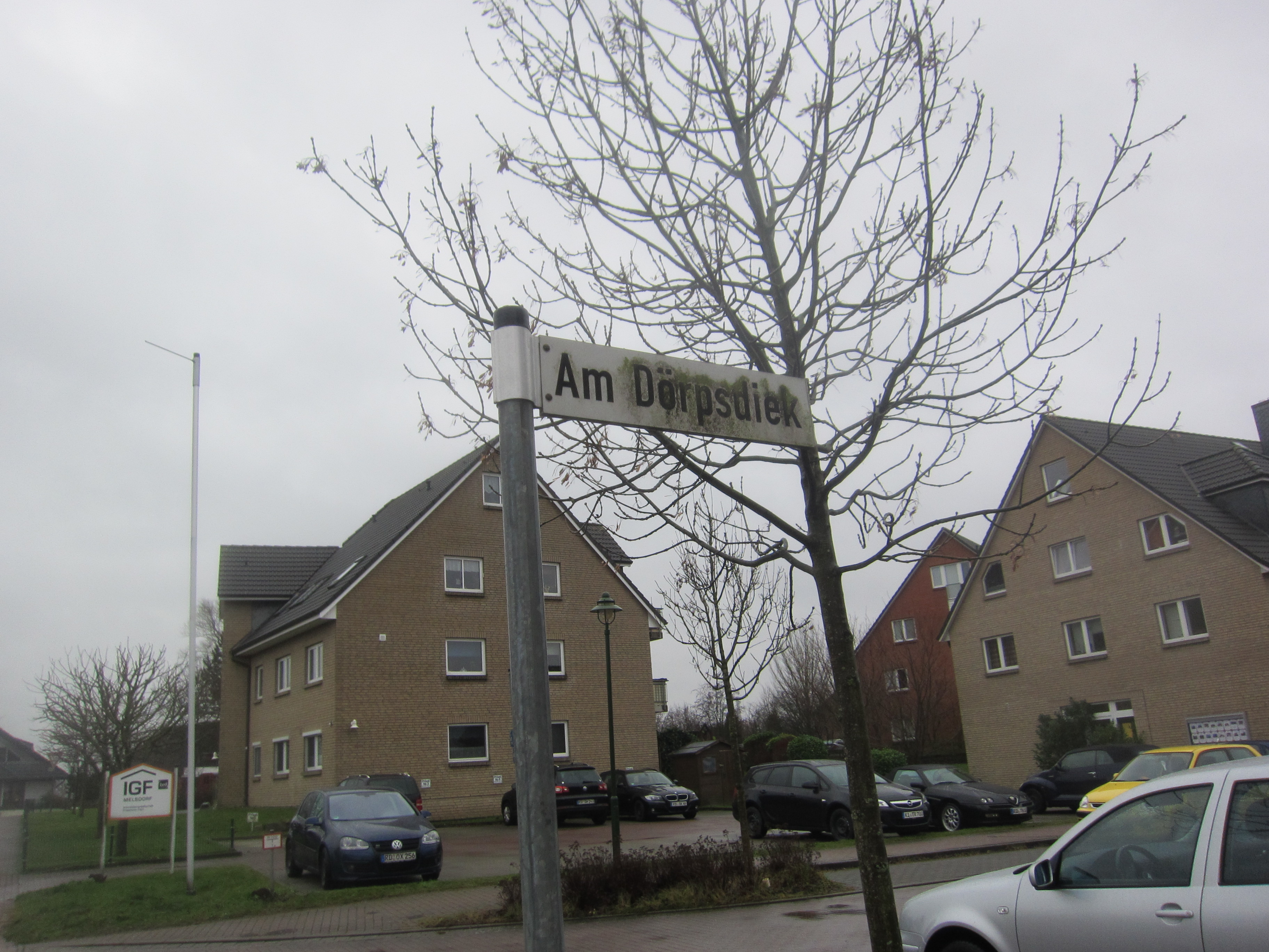 Street sign "Am Dörpsdiek" in Melsdorf